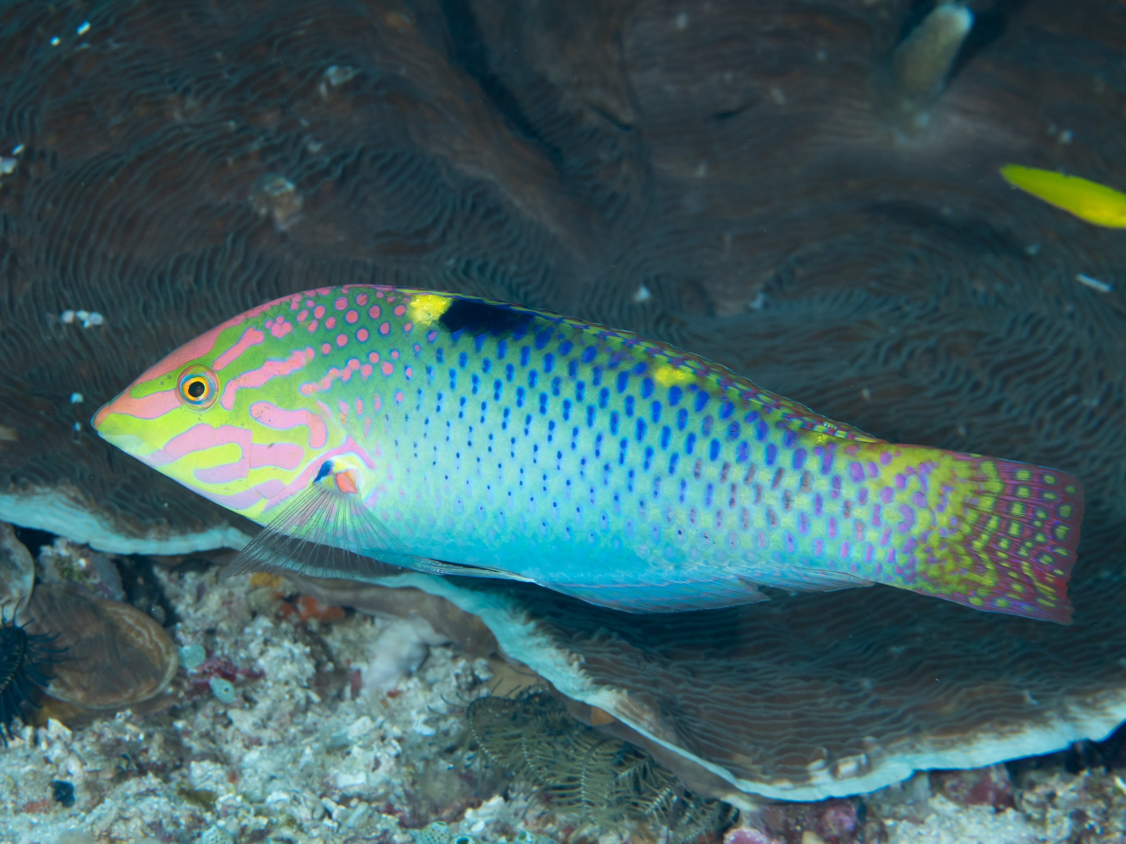 Checkerboard wrasse (Halichoeres hortulanus). Raja Ampat